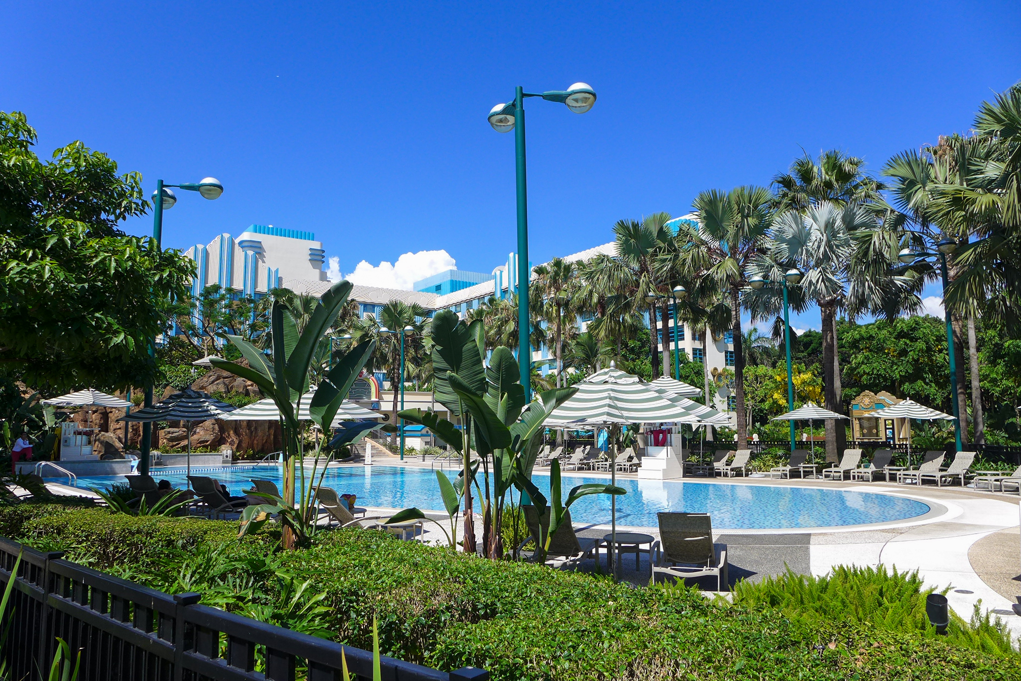 Disneyland Hollywood Hotel Swimming Pool